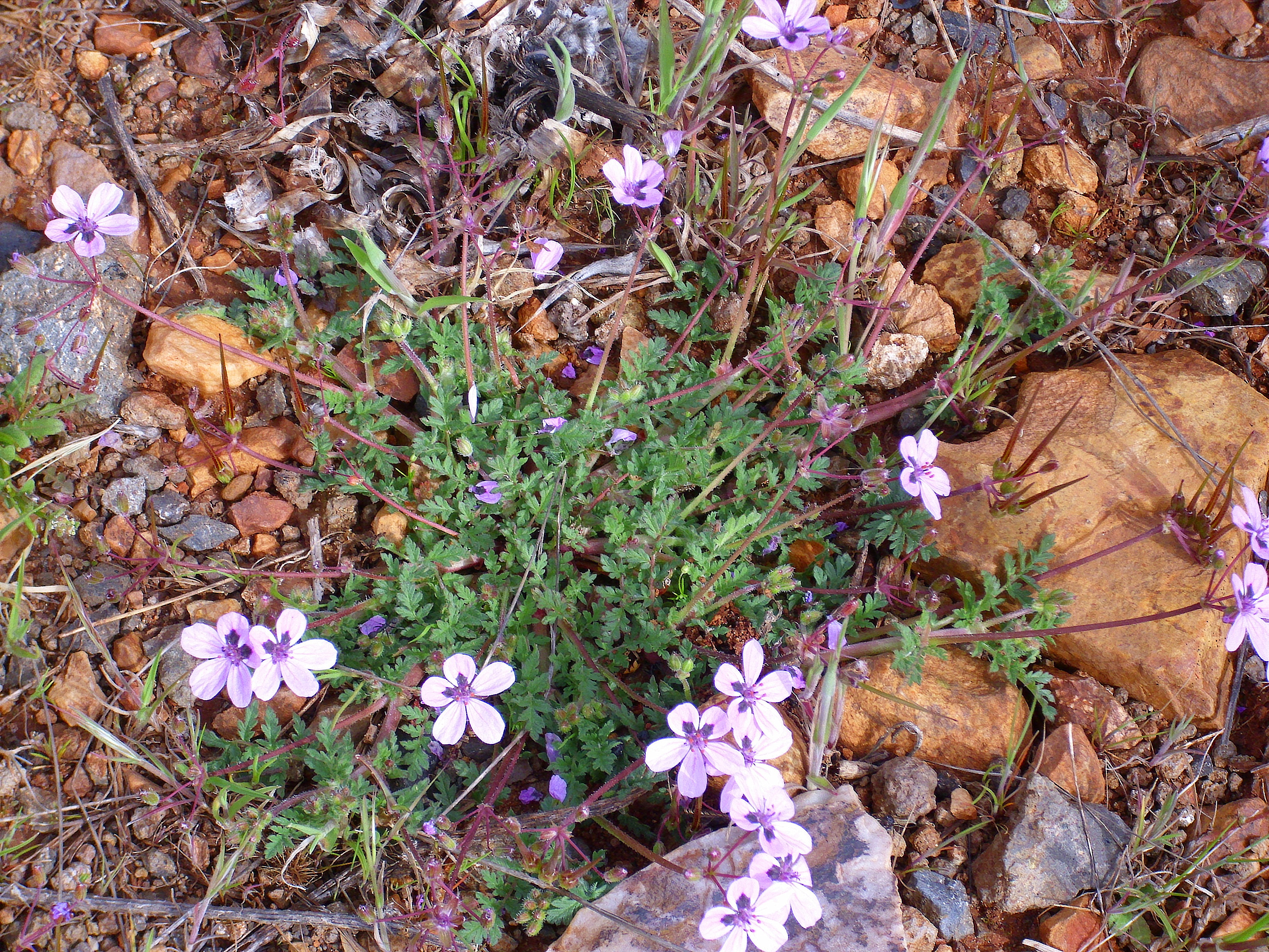 Erodium primulaceum habit Campo de Calatrava, Spain